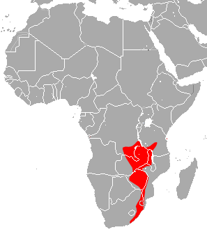 Swinny's Horseshoe Bat (Rhinolophus swinnyi) range